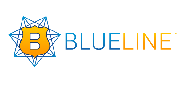 BlueLine logo from (as of Dec. 6, 2013)